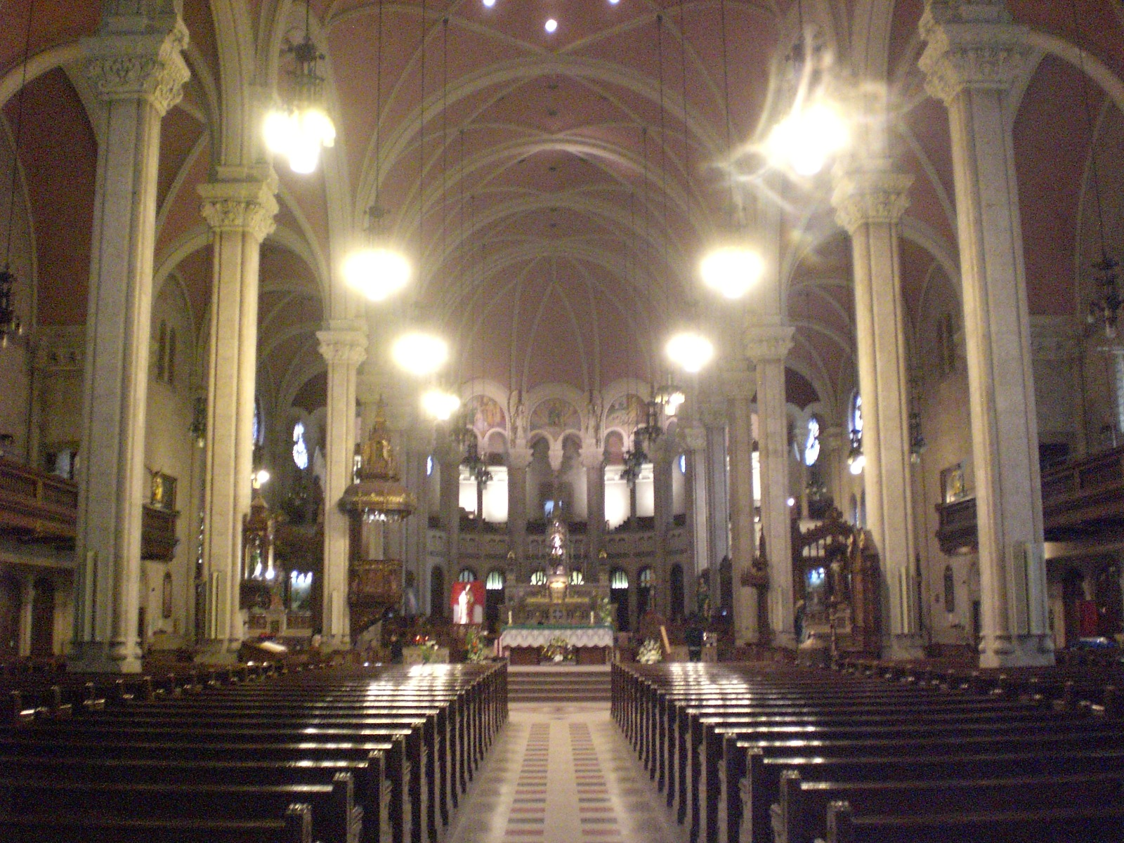 Interior of St Roch Church, Quebec City. Église Saint-Roch (Québec).